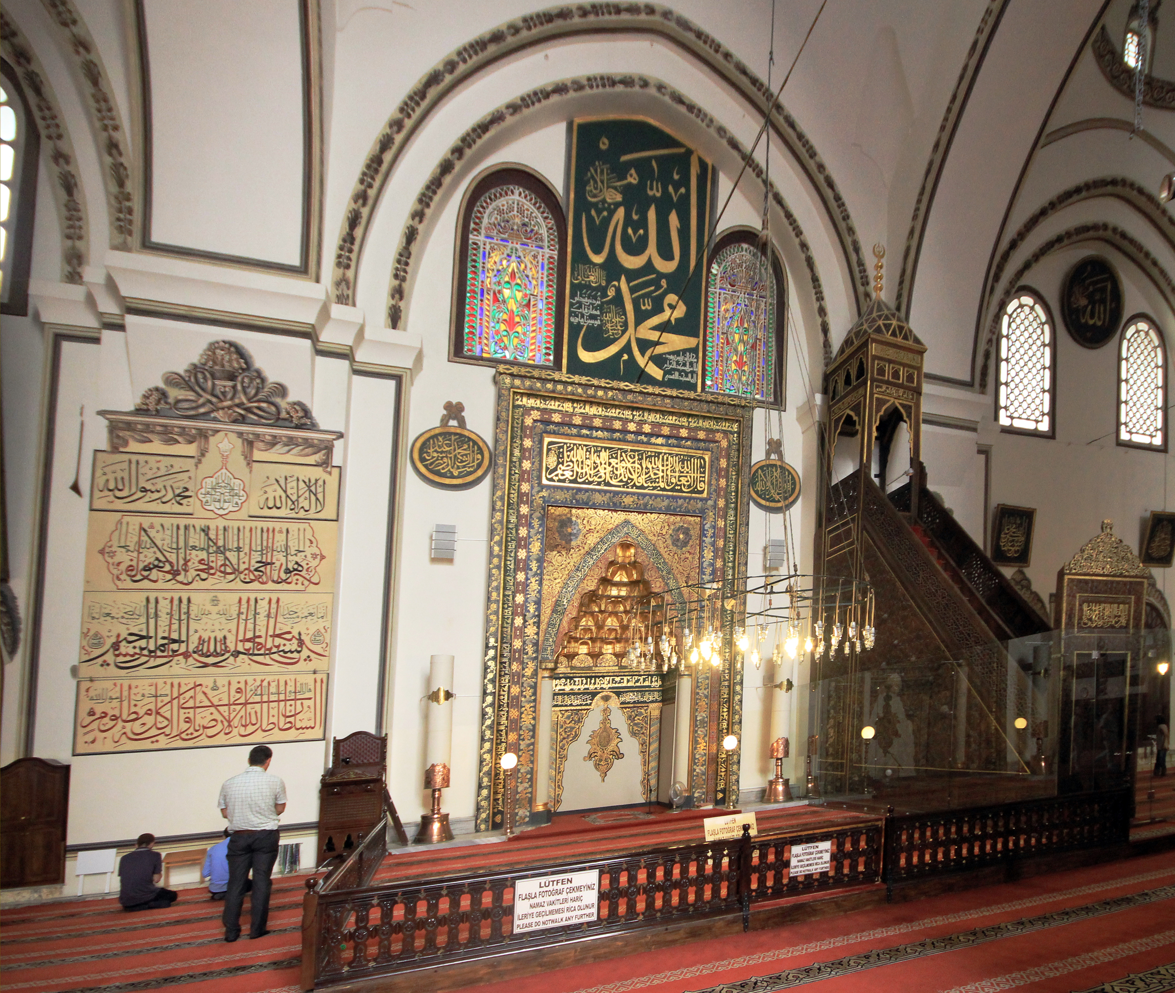 Interior of the Bursa Grand Mosque in Bursa city, Turkey